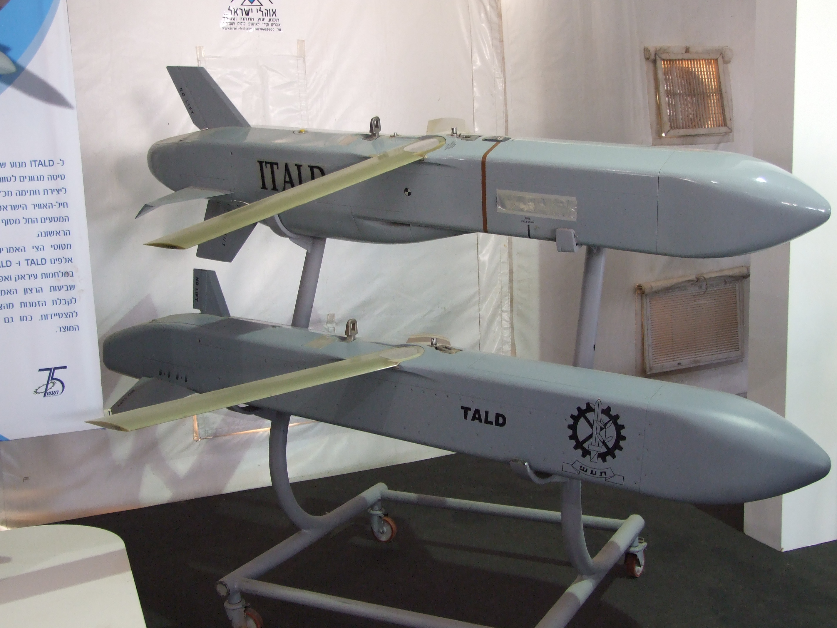 IMI ADM-141A/B TALD and IMI ADM-141C ITALD